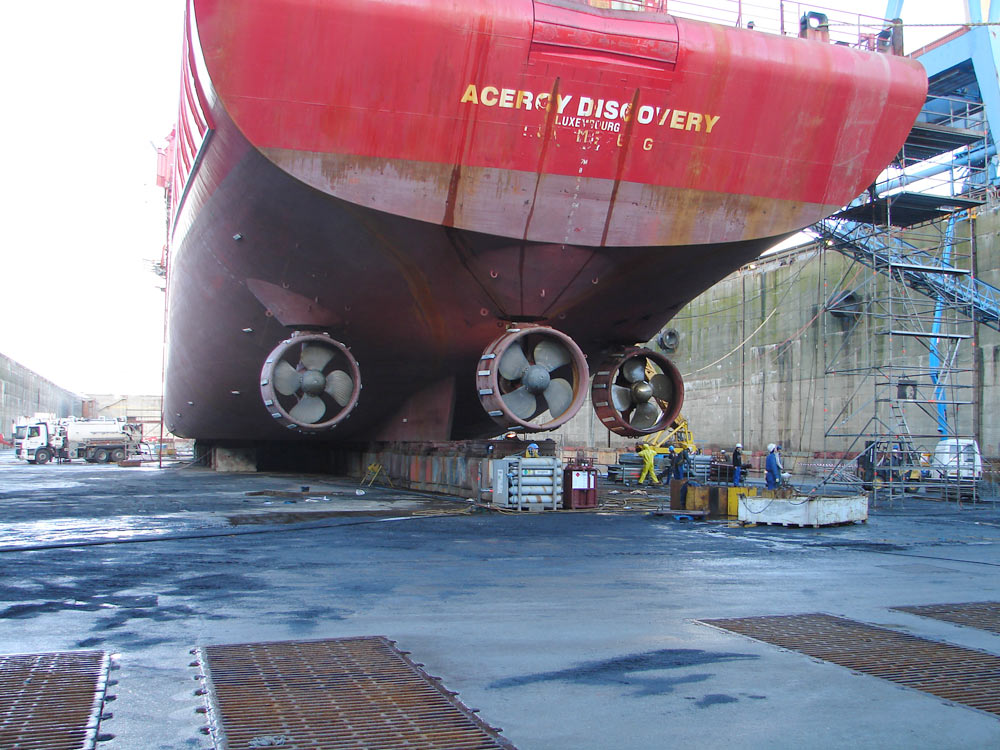 The Cable Laying & Diving Support Vessel (CLDSV) Acergy Discovery in dry dock in Brest.